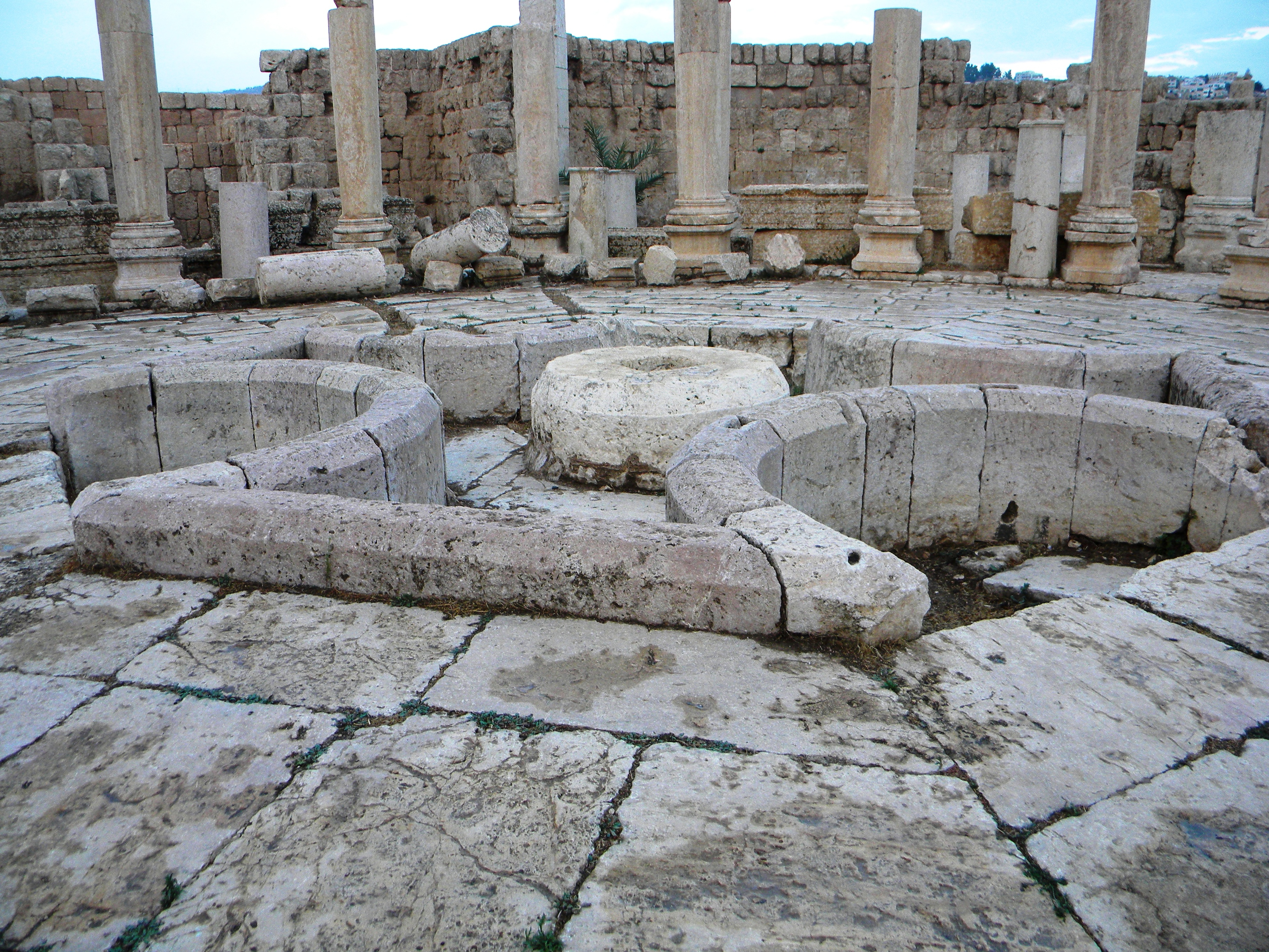 Macellum is the Latin word for a food market. In Jerash the Macellum, set at a side of the Cardo, occupied a complete quarter of the area between the Oval Plaza and the South Tetrapylon. It was built at the end of the 2-nd century AD.